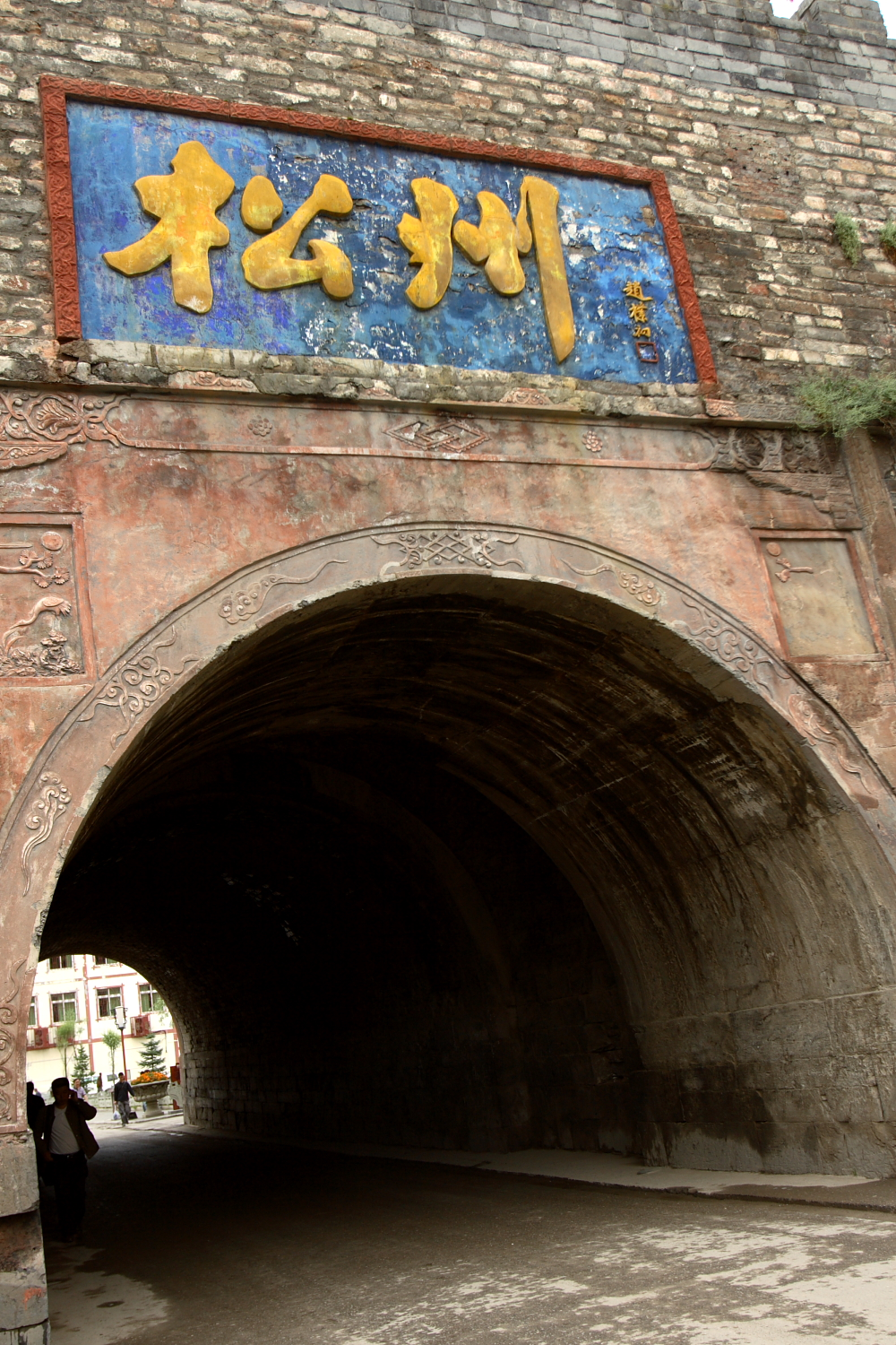 Songpan County